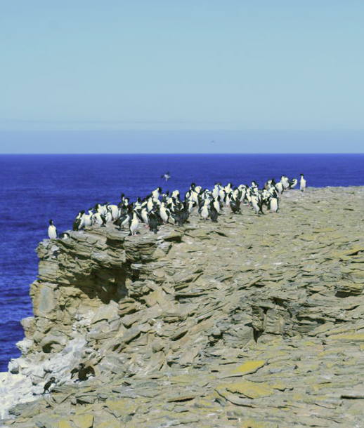 Shags on Sealion Island, Falkland Islands